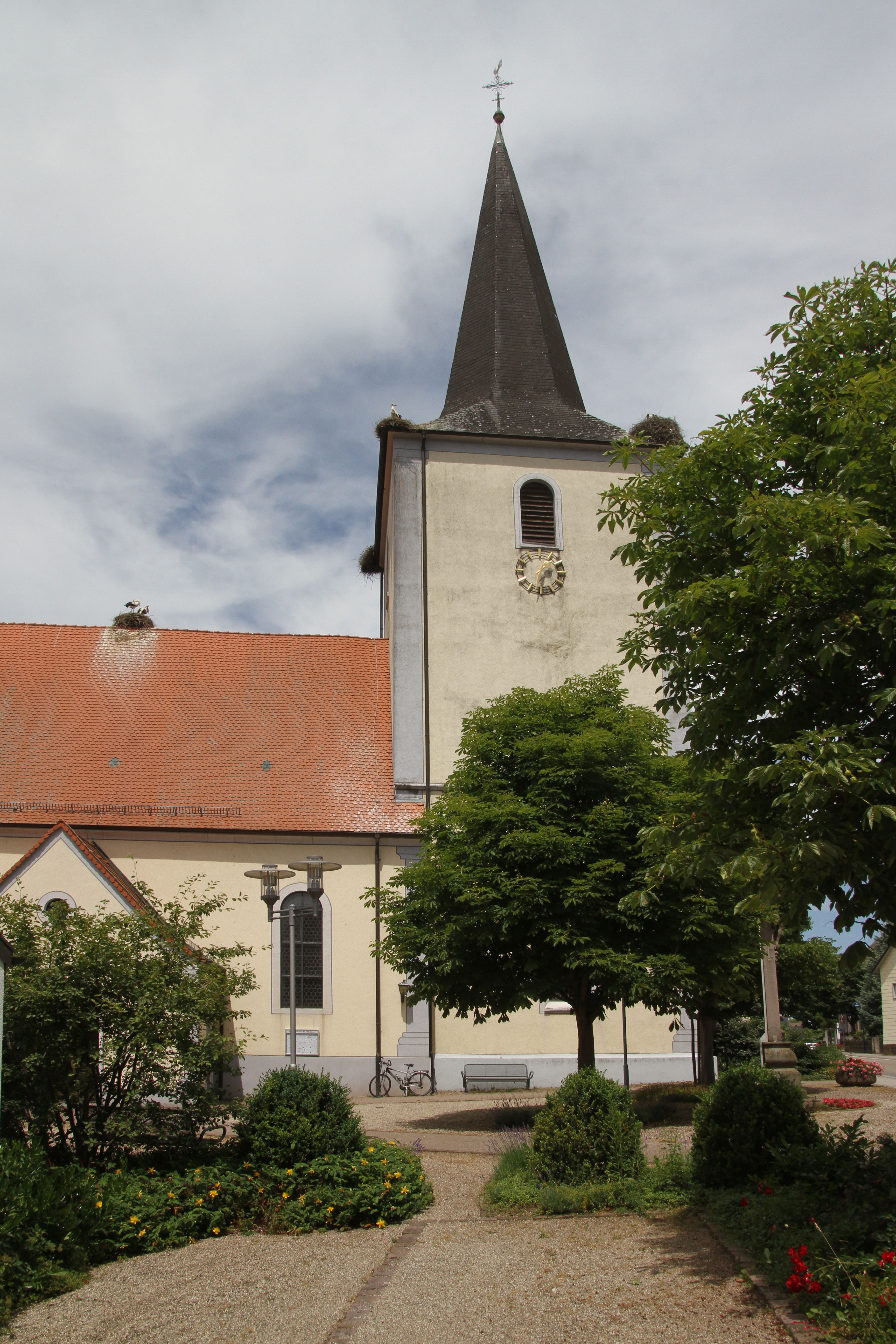 Church of St. Nikolaus in Achern-Gamshurst.